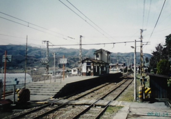 Naganodentetsu Yanagisawa Station inside 2002 March